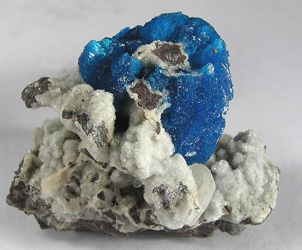 Cavansite Locality: Wagholi Quarry, Wagholi, Pune District (Poonah District), Maharashtra, India (Locality at ) Size: 5.3 x 4.3 x 3.5 cm. This is a LARGE cluster of peacock-blue cavansite, measuring 3 centimeters across! It has wrapped itself around some matrix in the center. There is a contact on the back side of the cluster, where you can see the radial structure of the crystals that form these beautiful balls. The cavansite sits on a bed of microcrystalline stilbite.